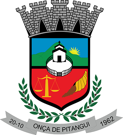 Brasão da cidade de Onça de Pitangui